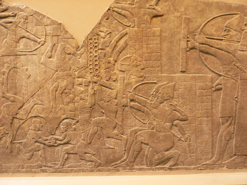 Photograph taken by Iglonghurst 18:32, 16 October 2006 (UTC) in British Museum